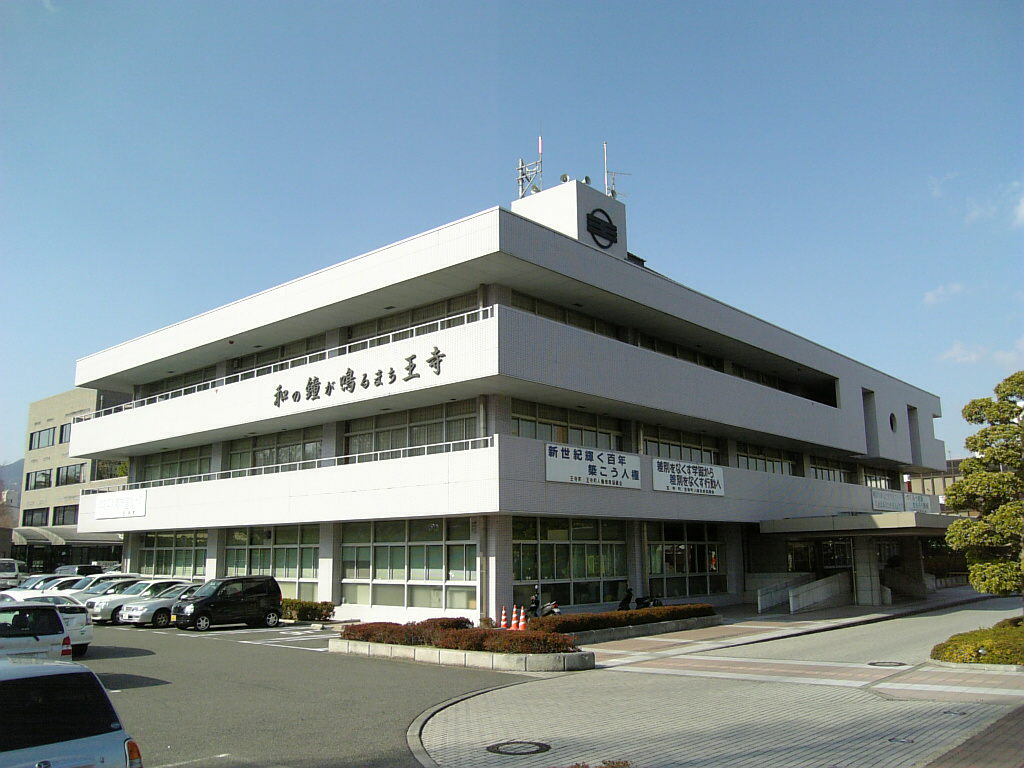 Oji Town Office in Nara Prefecture, Japan